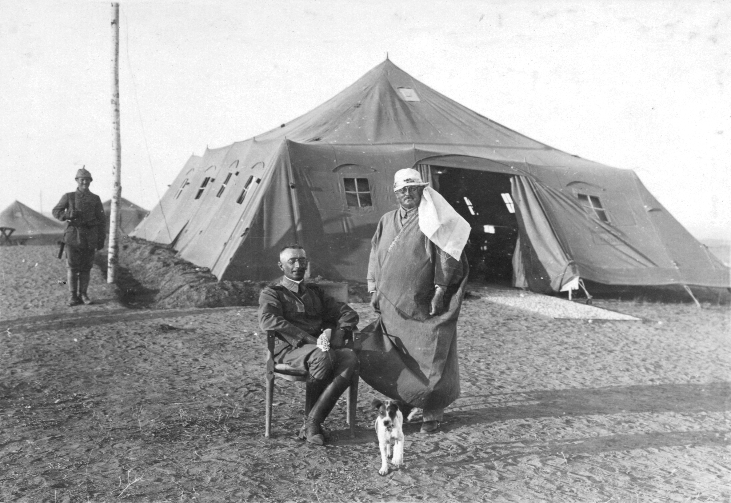 Von Kress and Col. Gott at Huj, 1916. LC-DIG-ppmsca-13709-00098 (digital file from original on page 29, no.97).